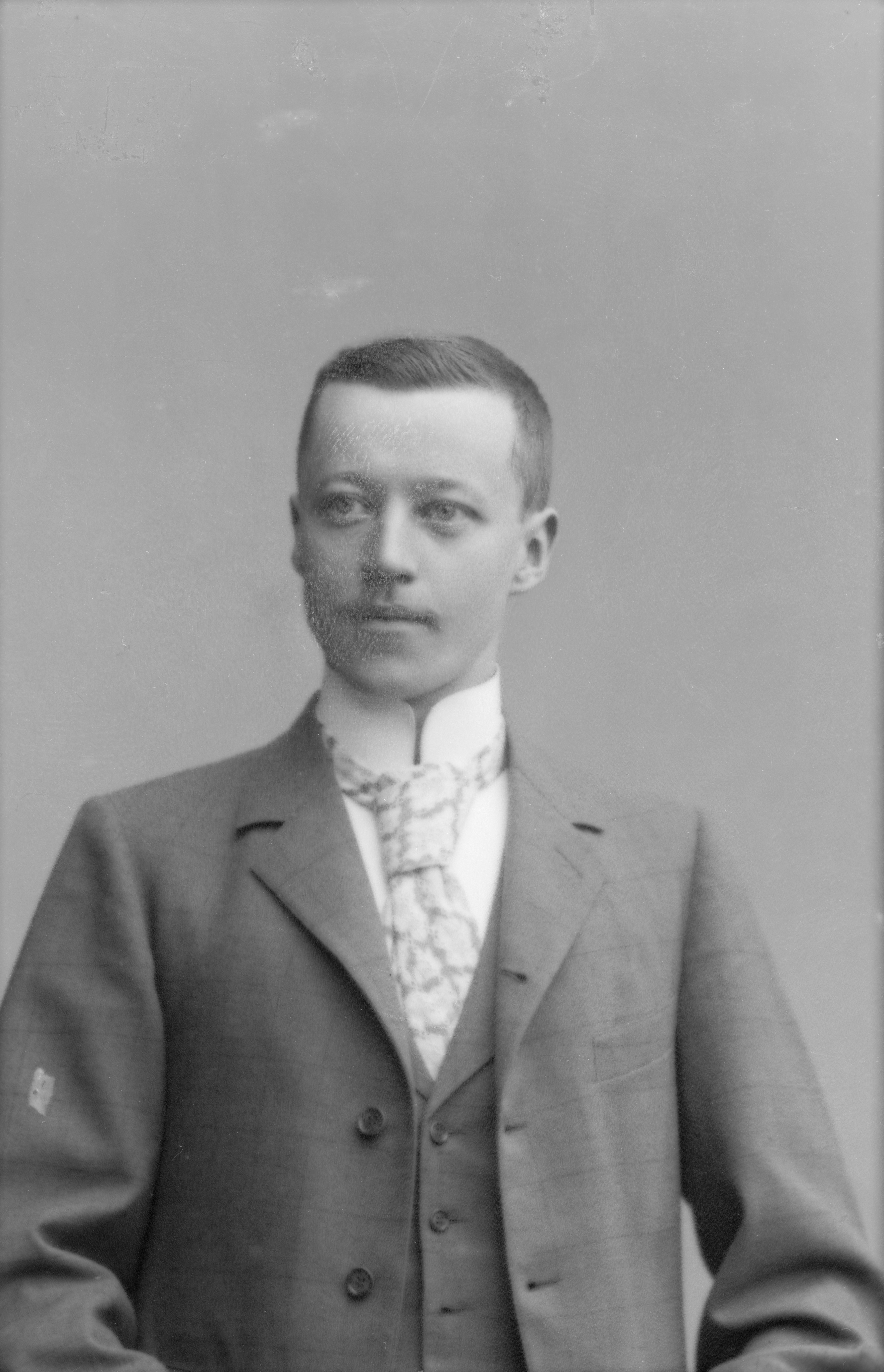 Photograph of the Swedish-Finnish architect Karl Lindahl (1874–1930).